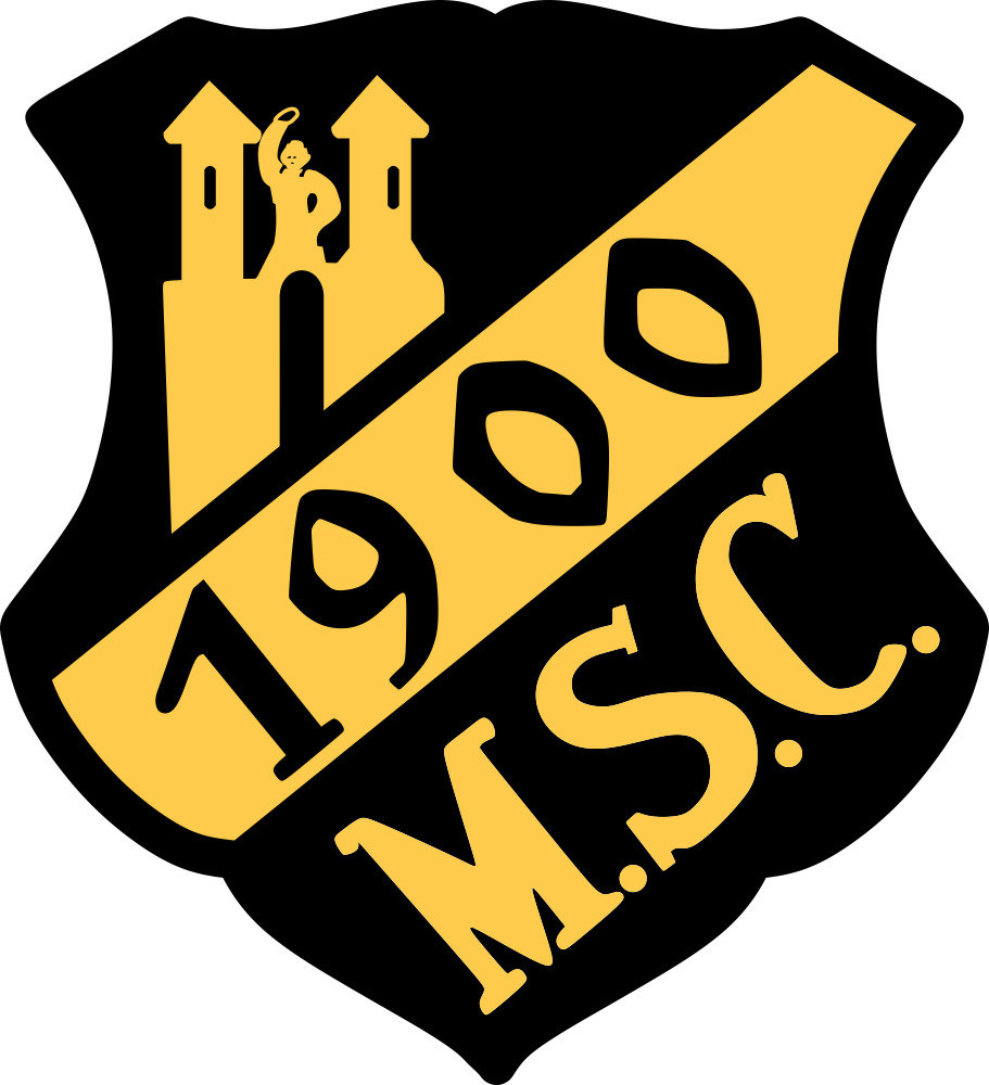 Logo of former german sportclub SC 1900 Magdeburg (1900-1945)